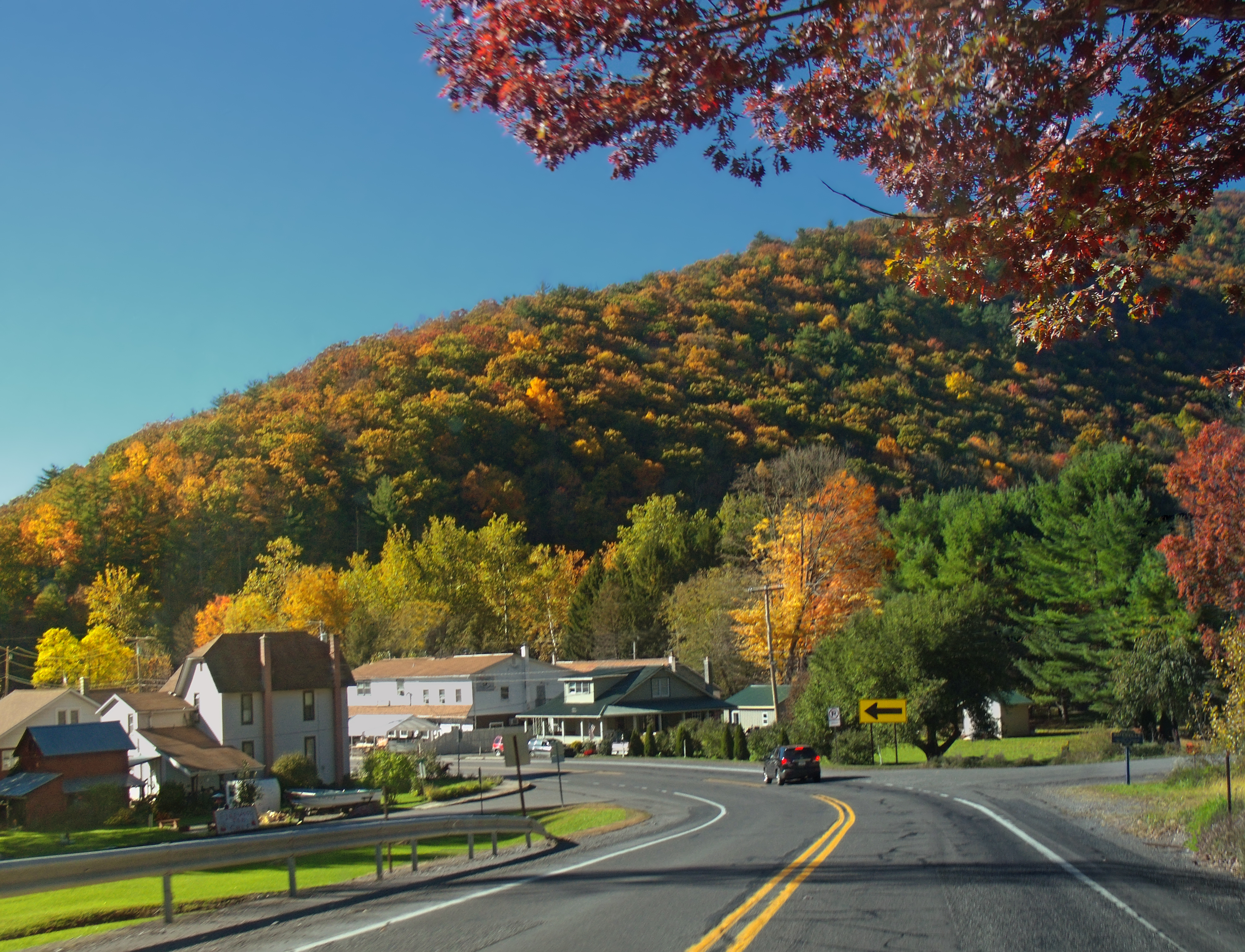 PA Route 44, Lycoming County, at the village of Waterville.